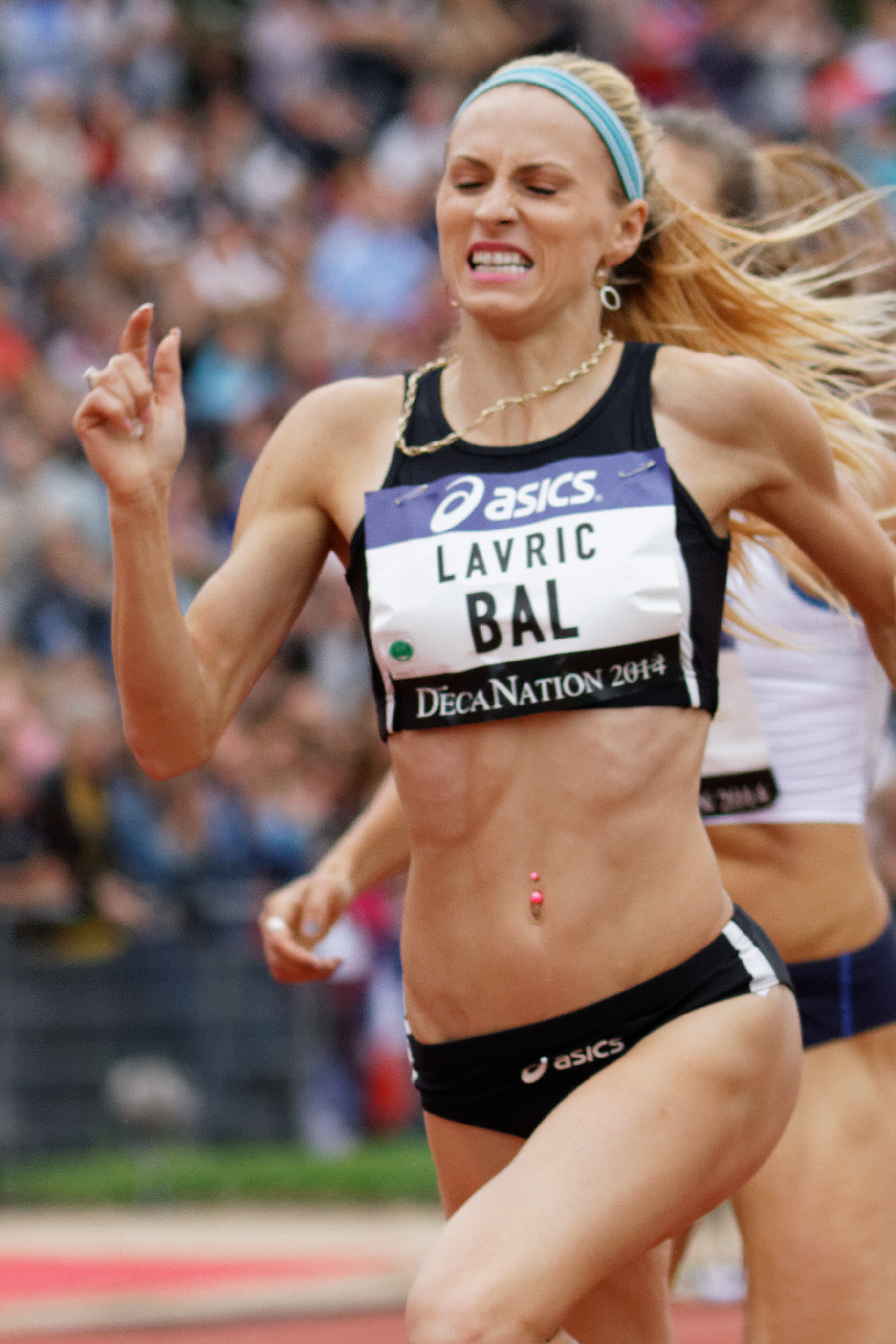 DécaNation 2014 800m. Elena Mirela Lavric.